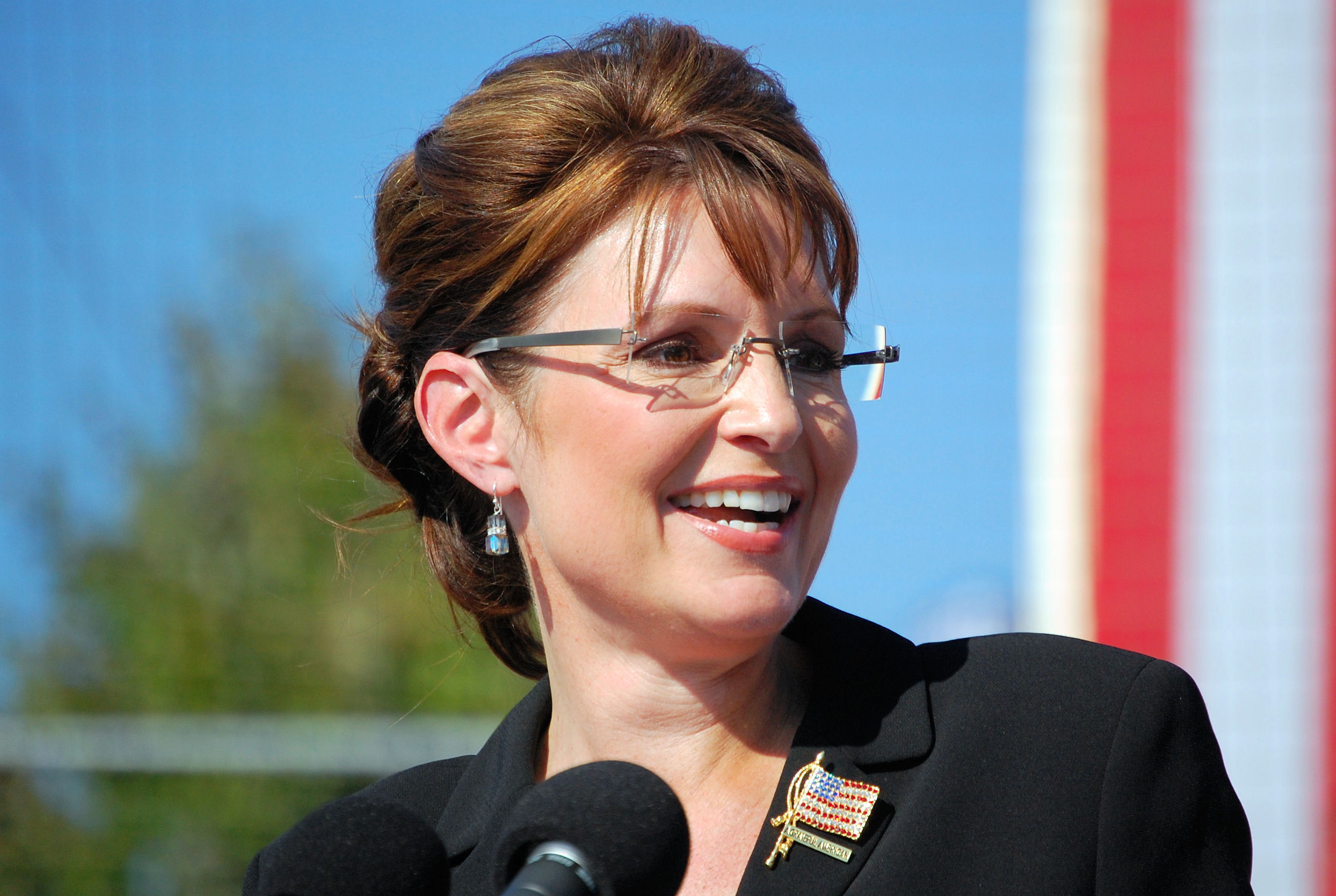 Sarah Palin speaking at a rally in Elon, NC during the 2008 Presidential Campaign.